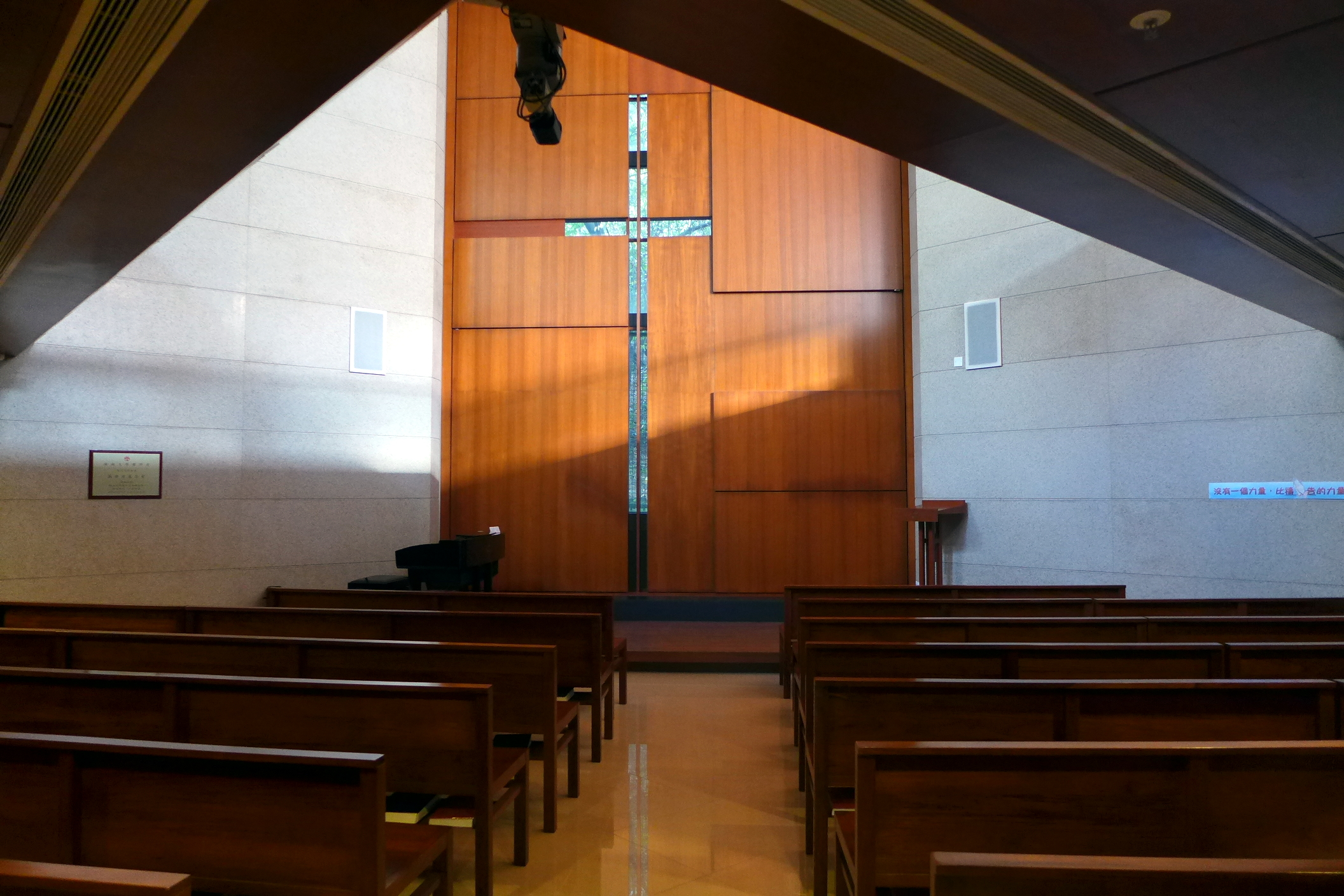 Lingnan University NAB Church Interior